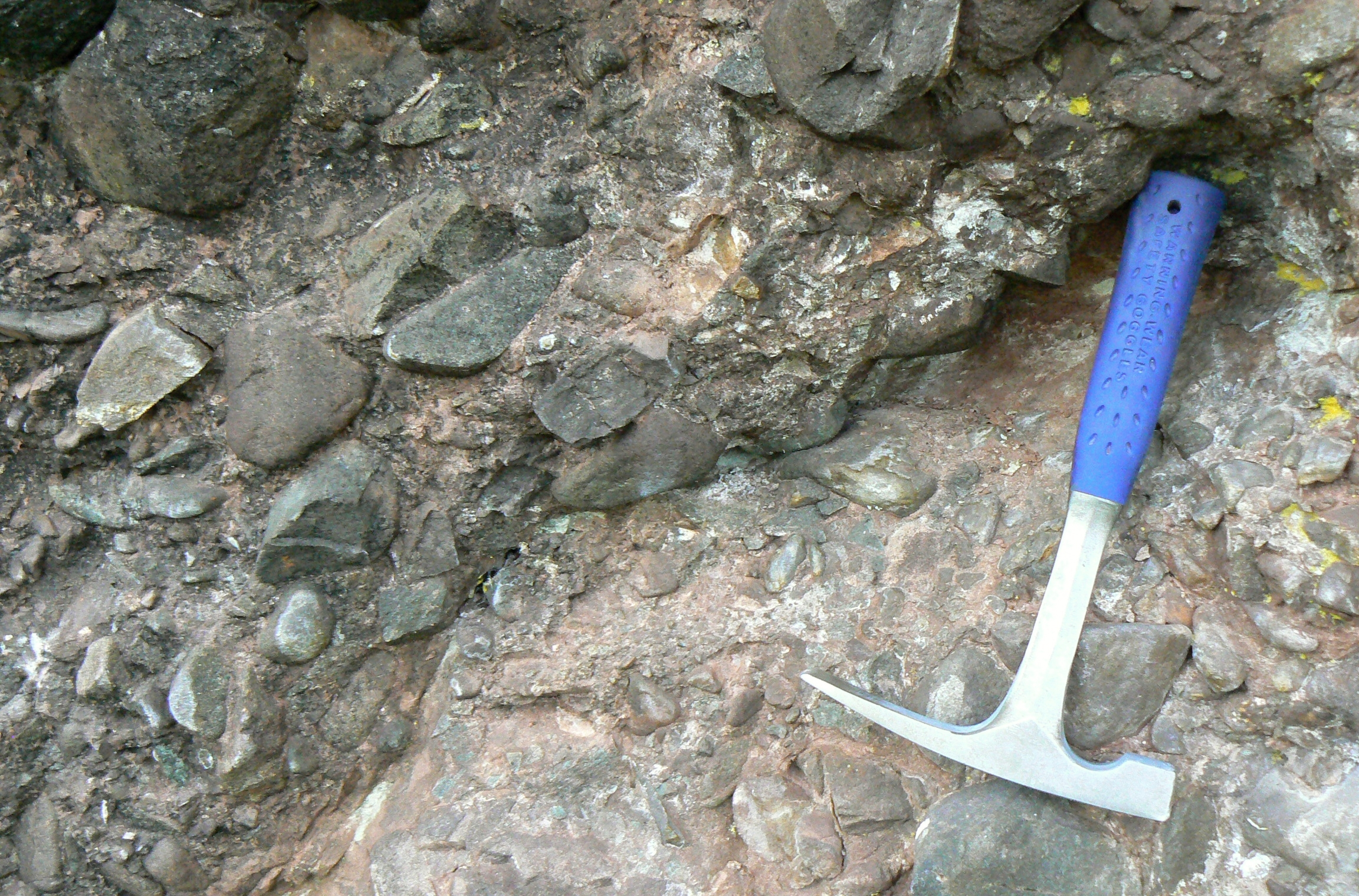 National natural monument Krumlovsko-rokytenské slepence between Moravský Krumlov and Budkovice, Znojmo District. Rokytna conglomerates.